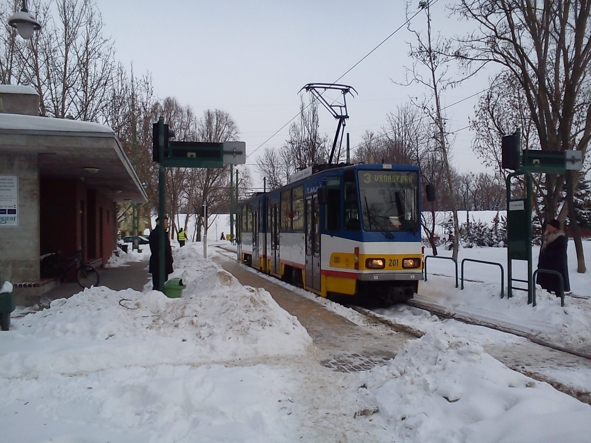 Tatra KT4D at tram stop Tarján in Szeged, Hungary.